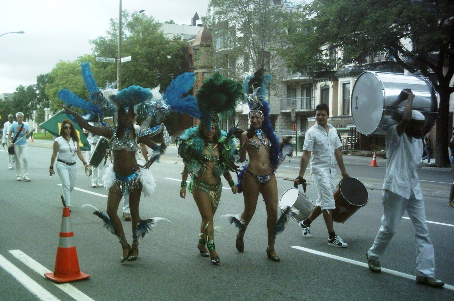 Gentle smile during Caribbean Festival in Montreal